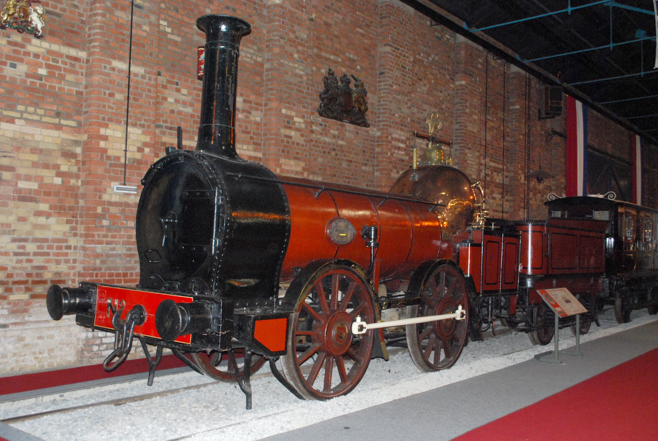 Furness Railway "Bury" 0-4-0 No.3 Coppernob built in 1846 at the Bury, Curtis & Kennedy Works, Liverpool. The Bury type engines with bar frames were designed by Edward Bury and were immensely successful in the early days of railways but were eventually overtaken by larger, more advanced types. 9/10.